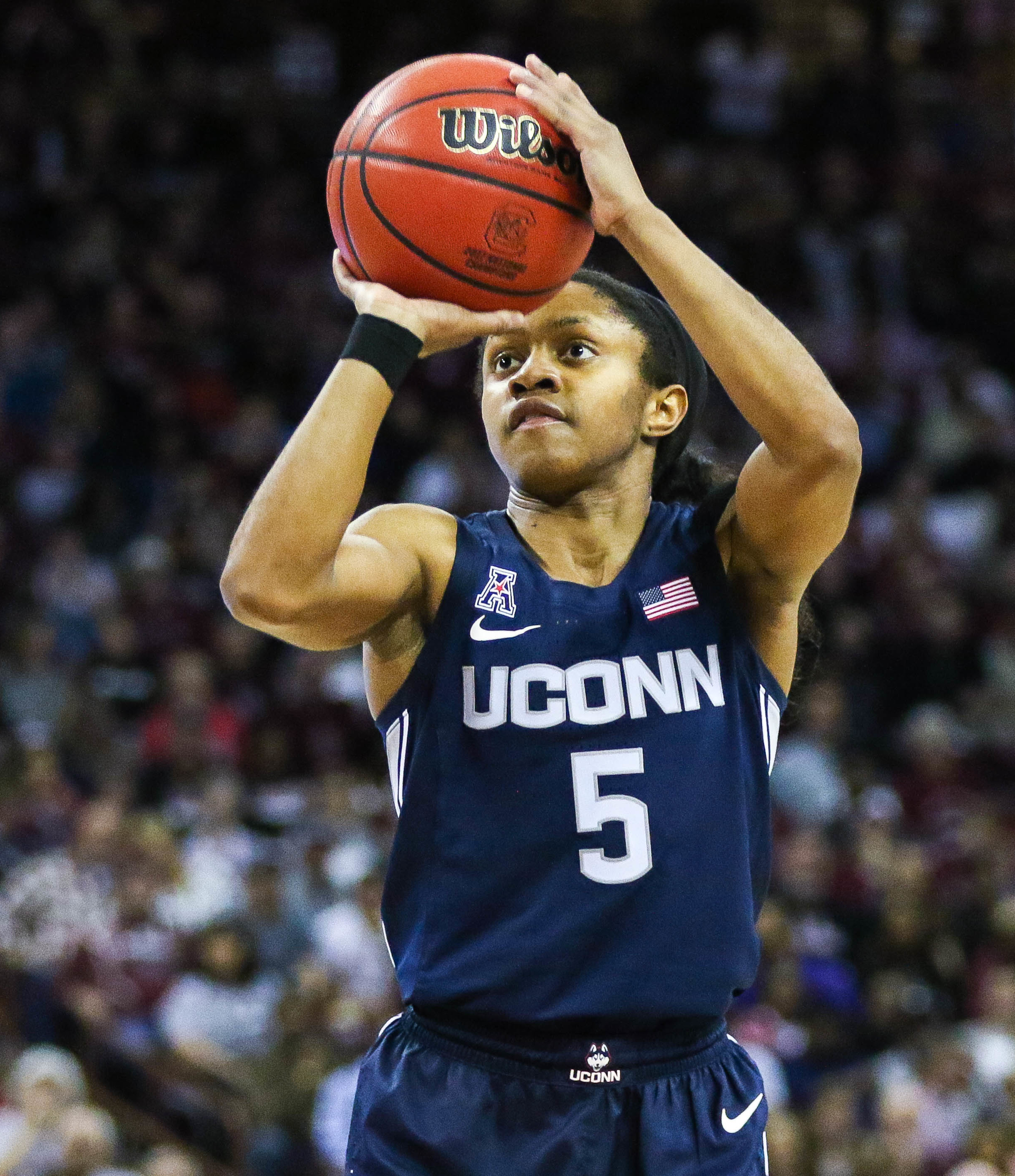 Crystal Dangerfield Photo by Katie Dugan